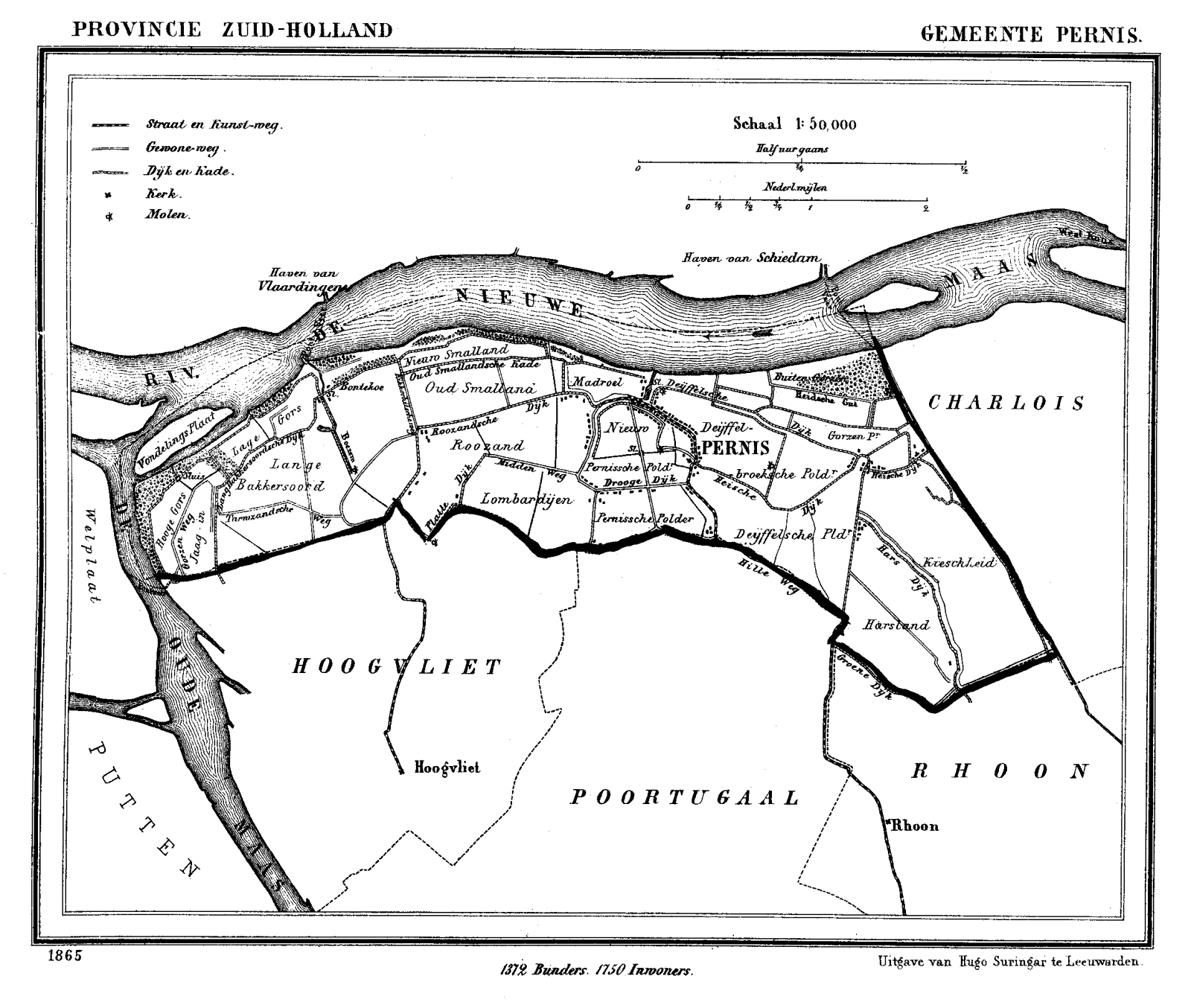 Historic map of Pernis (now part of municipality Rotterdam), South Holland, the Netherlands